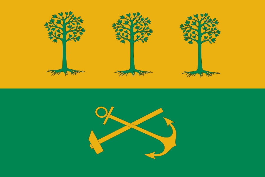 South-East district in Moscow, flag